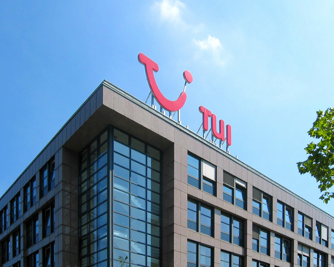 TUI AG headquarters in Hanover - Karl-Wiechert-Allee 4. The panorama is here since the author took the photograph from Karl-Wiechert-Allee 4.